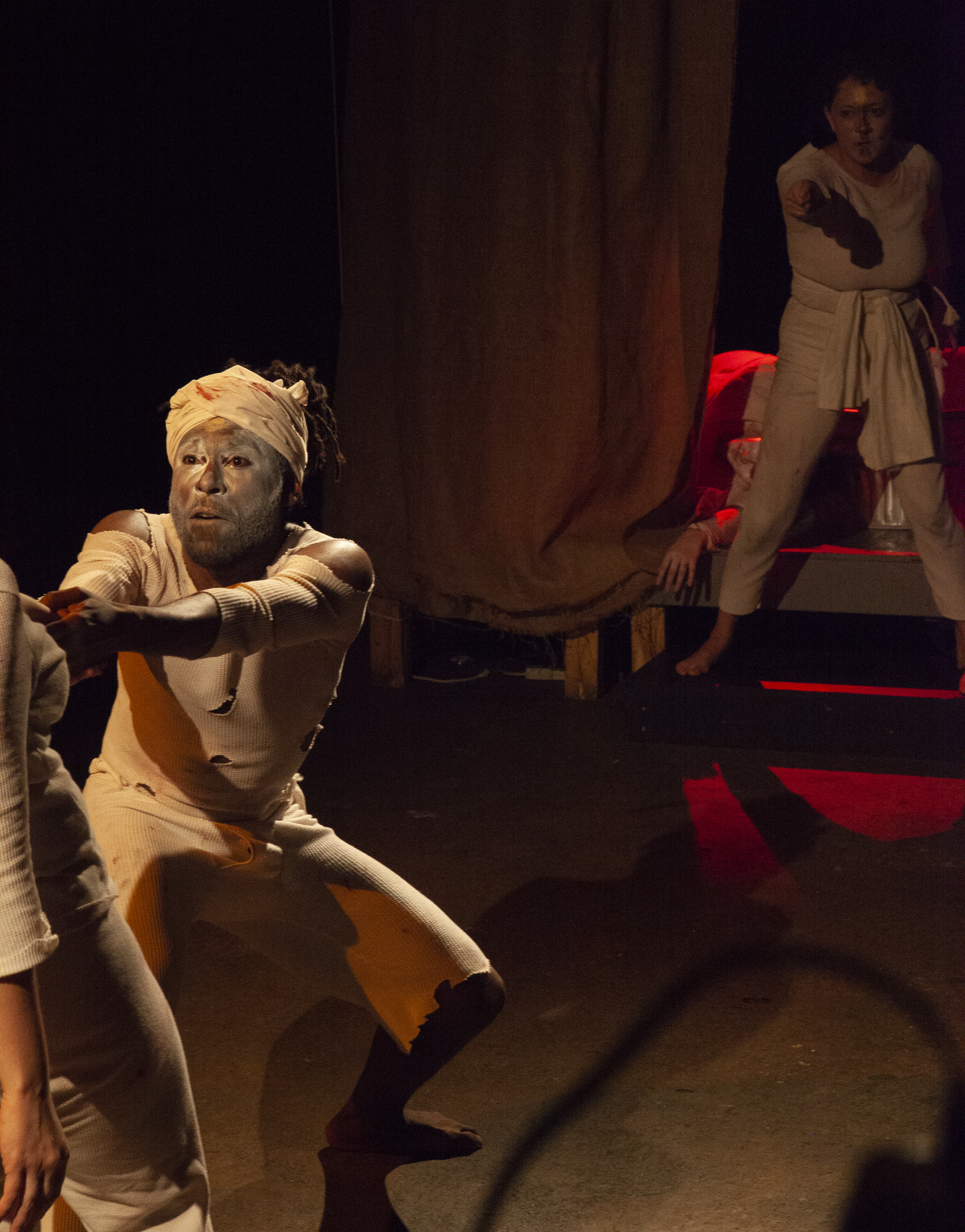 Marcus Stewart and Mariana Catalina in Oresteia by Aeschylus, adapted by Ryan Castalia for Stairwell Theater, 2019